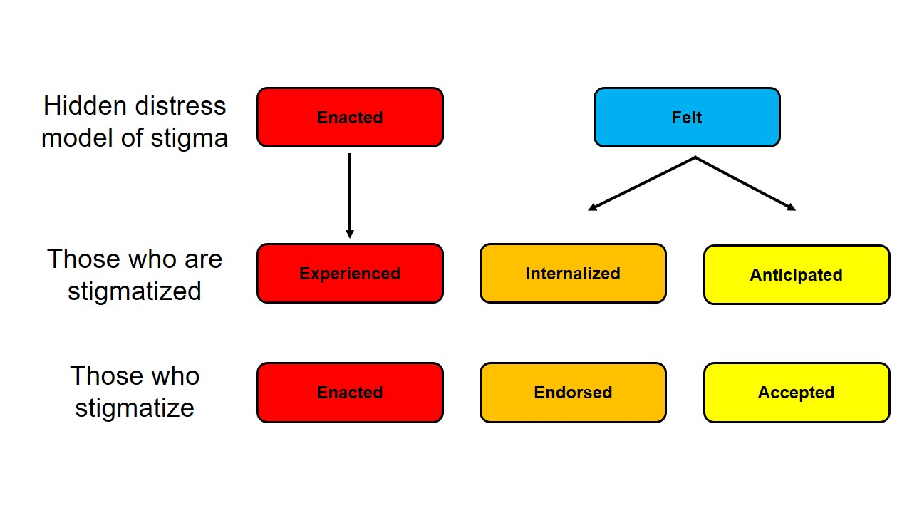 This framework aims to describe different types of stigma.